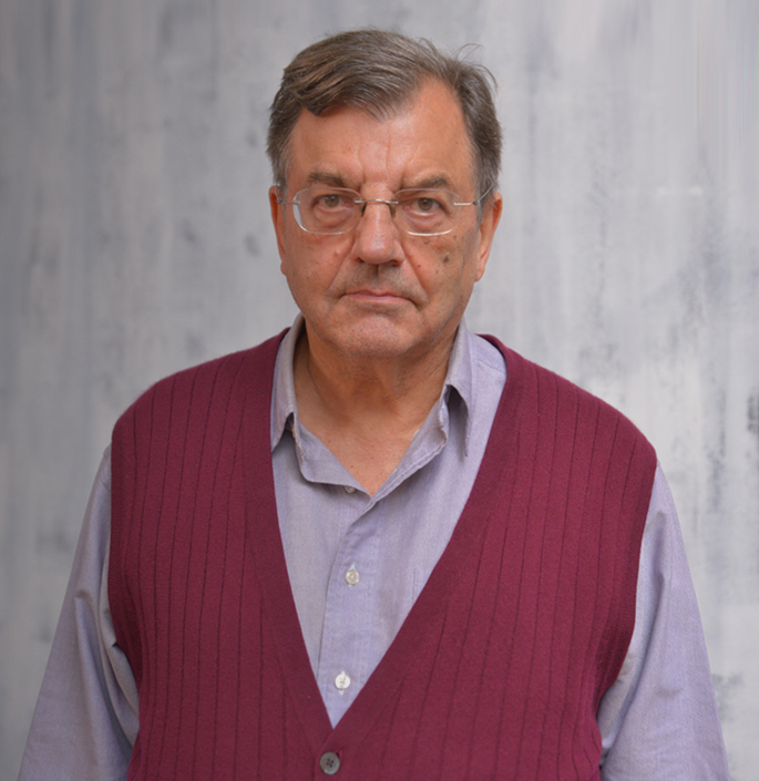 MHudson